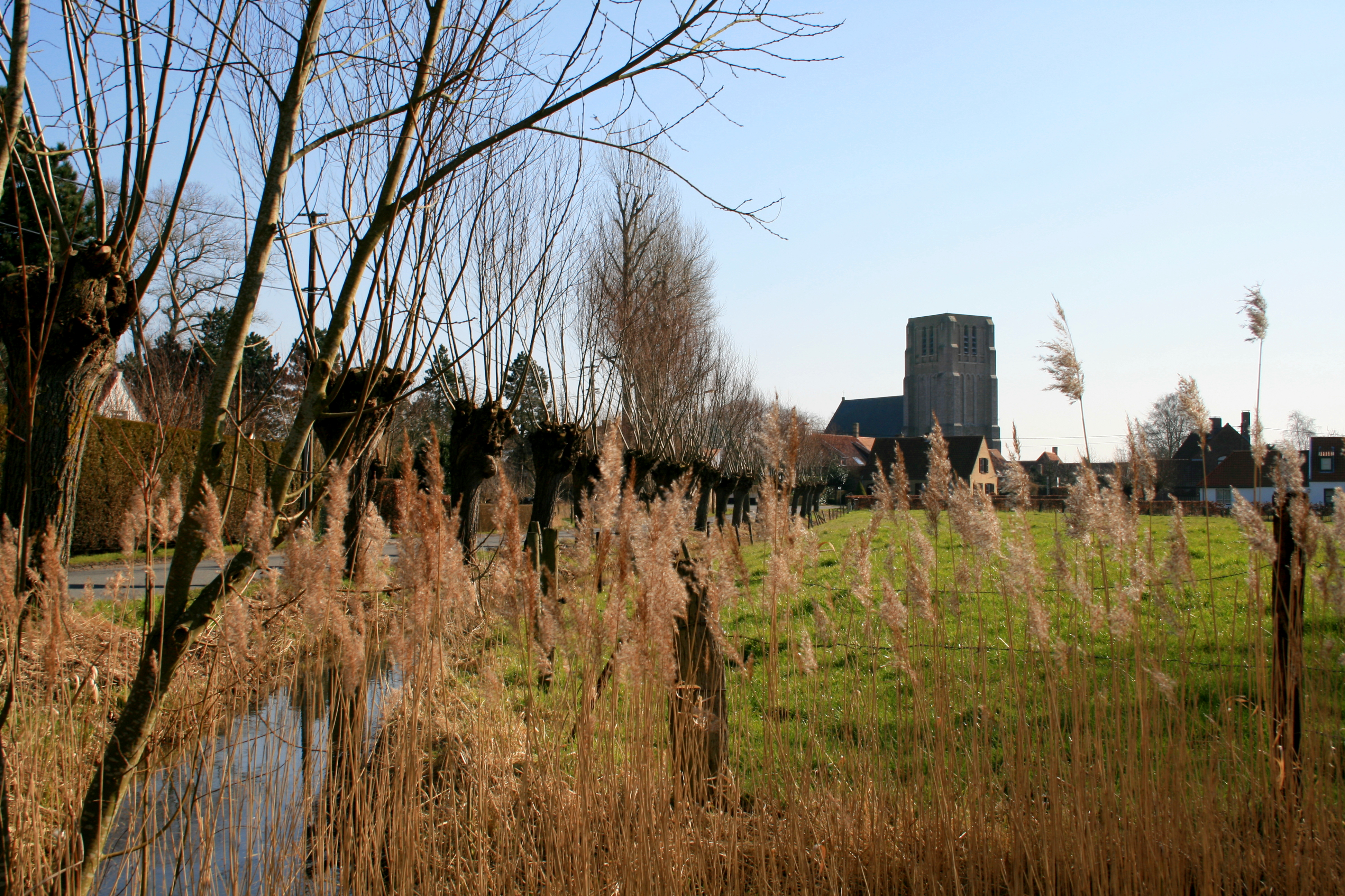 Oostkerke (Damme) (Belgium), the curch of Saint Quentin.